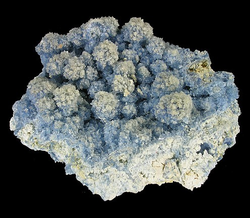 Vauxite, Paravauxite Locality: Siglo Veinte Mine (Siglo XX Mine; Llallagua Mine; Catavi), Llallagua, Rafael Bustillo Province, Potosí Department, Bolivia (Locality at ) Size: 7.0 x 5.5 x 2.5 cm. From the new find of 2009, this is another great discovery for this locality. This particular piece is a remarkable, very well crystallized, very rare, specimen consisting of small, bladed, beautiful blue color, radiating aggregates of Vauxite hosting a pale greenish Paravauxite on minor clay (probably decomposed Allophane) matrix. It is very difficult to obtain any specimens of this incredibly beautiful phosphate and to find two "Vauxite" species together on one piece is fantastic. This piece is from the type locality for Vauxite and Paravauxite which were originally discovered along the Contacto and San Jose veins in this mine and first described by Sam Gordon and Mark Bandy.